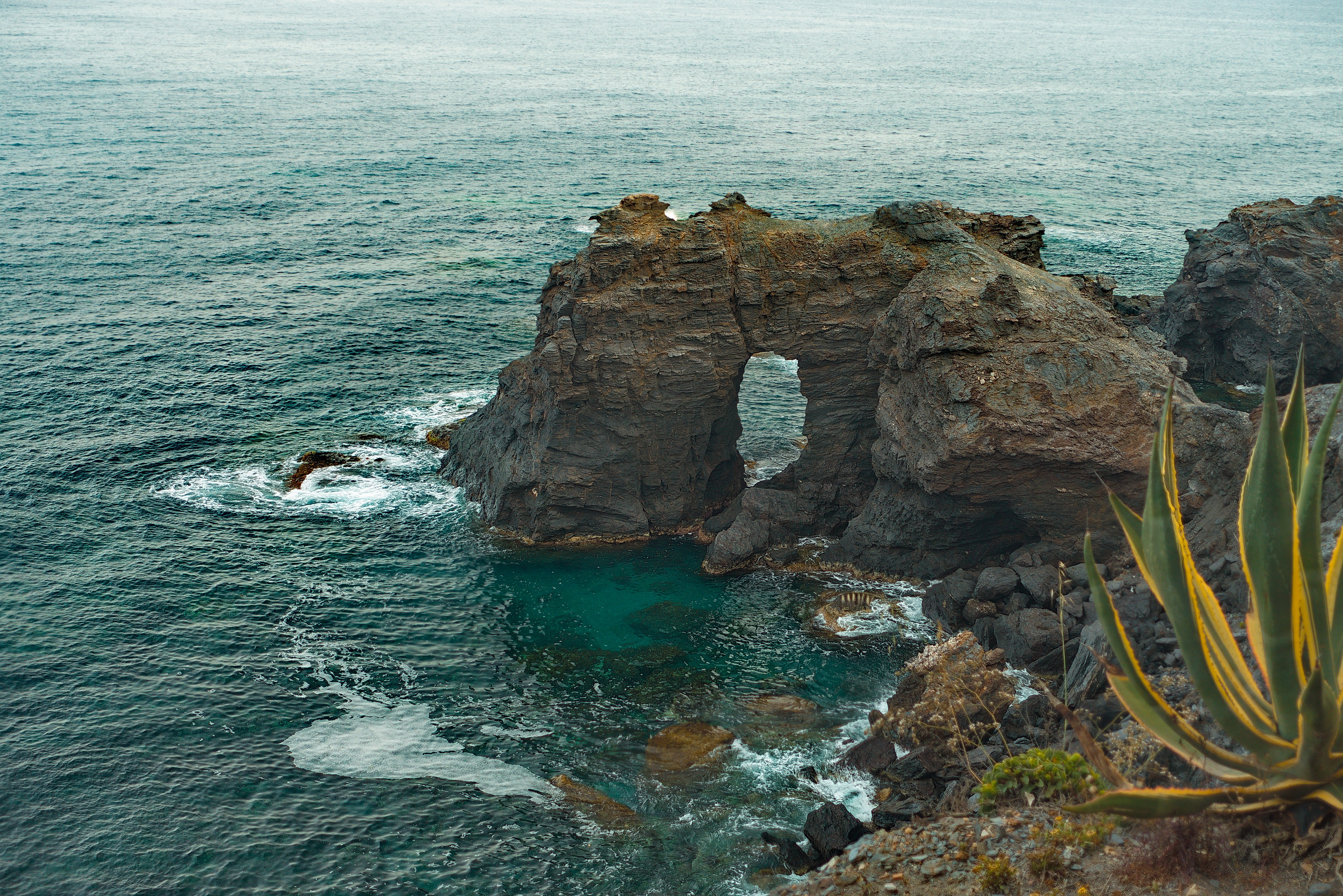 Arco de los Reyes, a natural arch located near Cala Flores, within the regional park of Calblanque, Monte de las Cenizas and Peña del Águila (Cartagena, Spain).